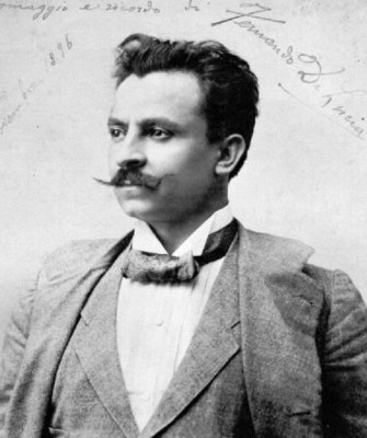 Fernando De Lucia (1860–1925), Italian operatic tenor